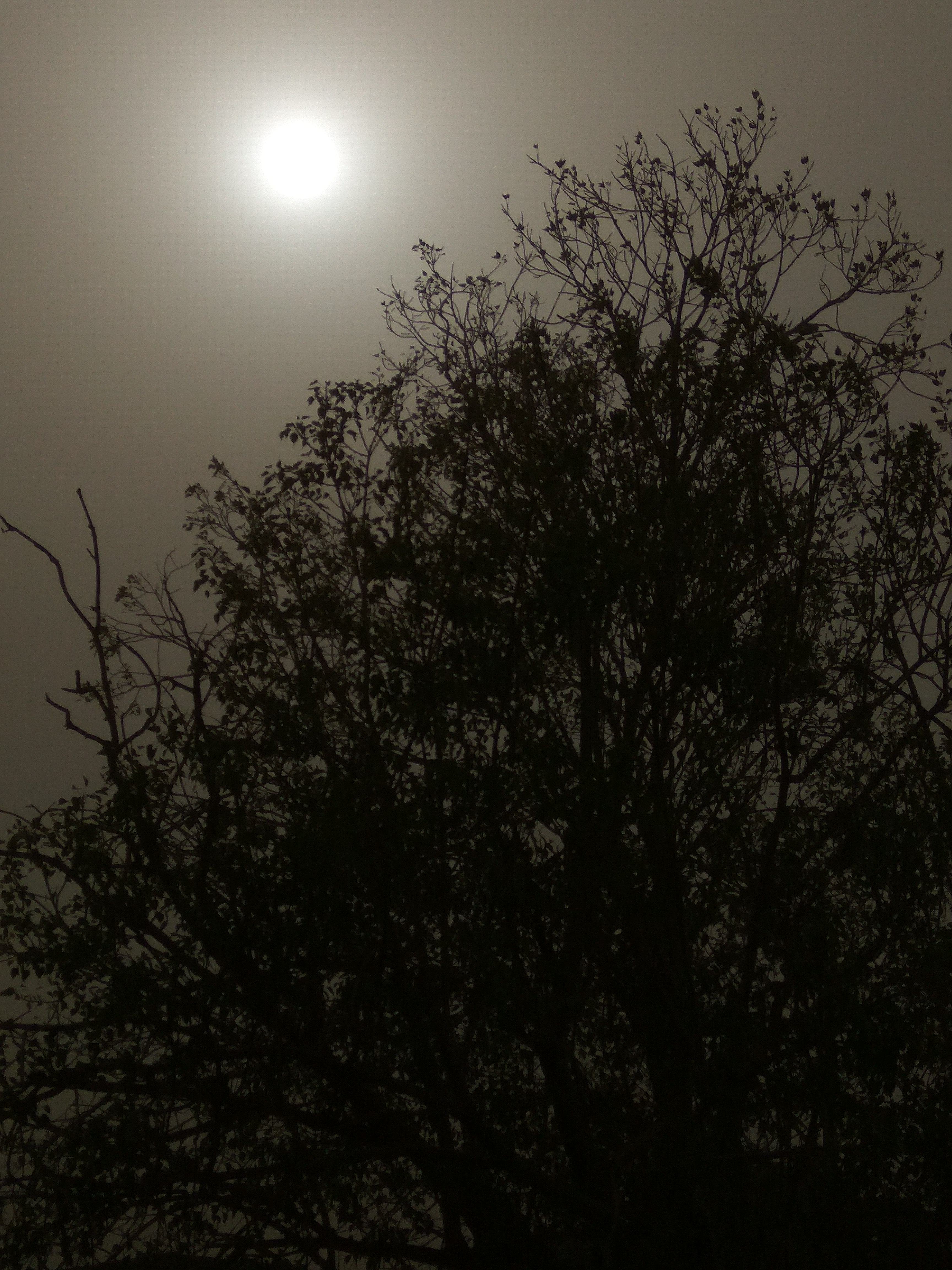 IMAGE TELL US ABOUT THE BEAUTY OF SANDSTORM IN RAJSTHAN